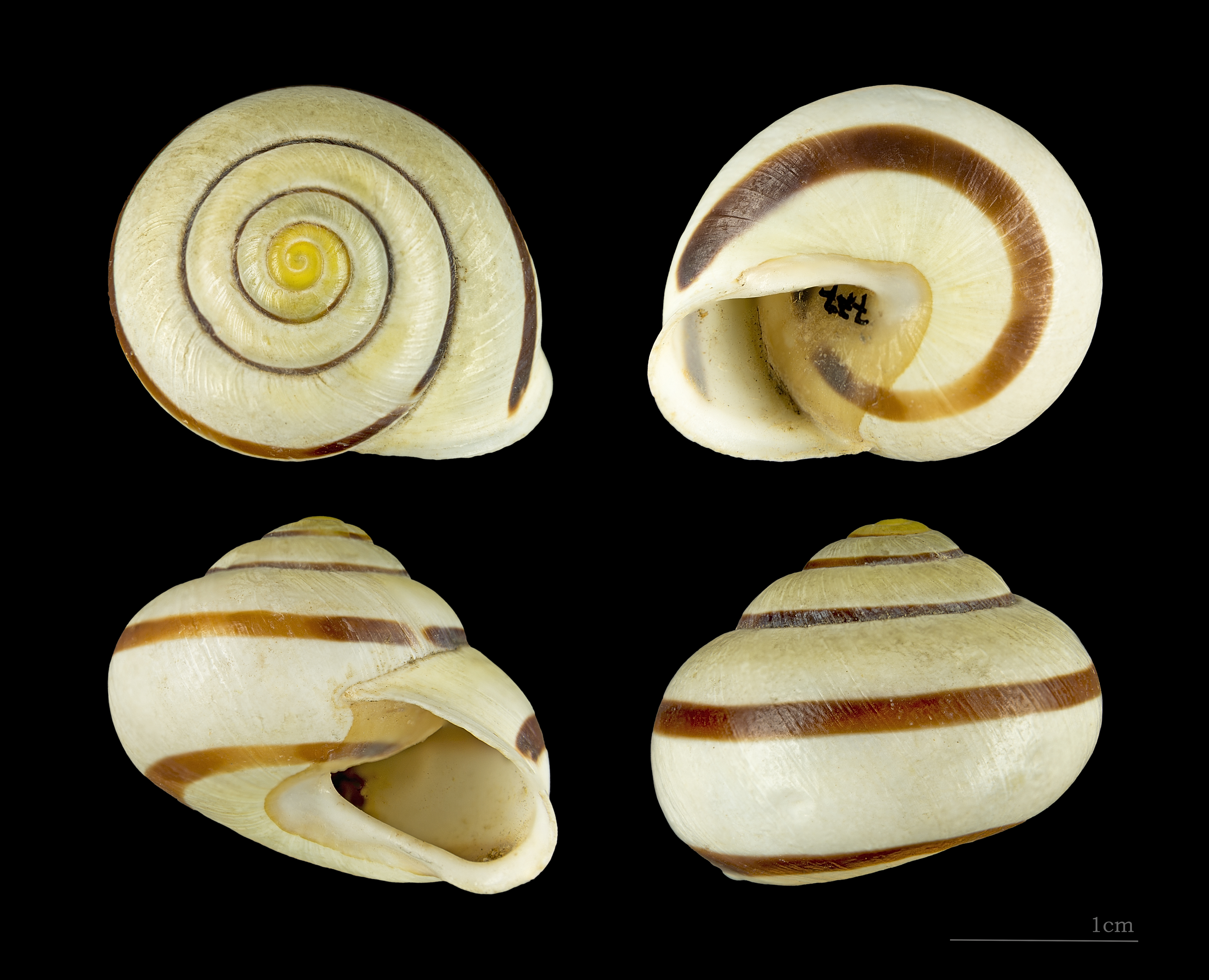 Shells of white-lipped snail.